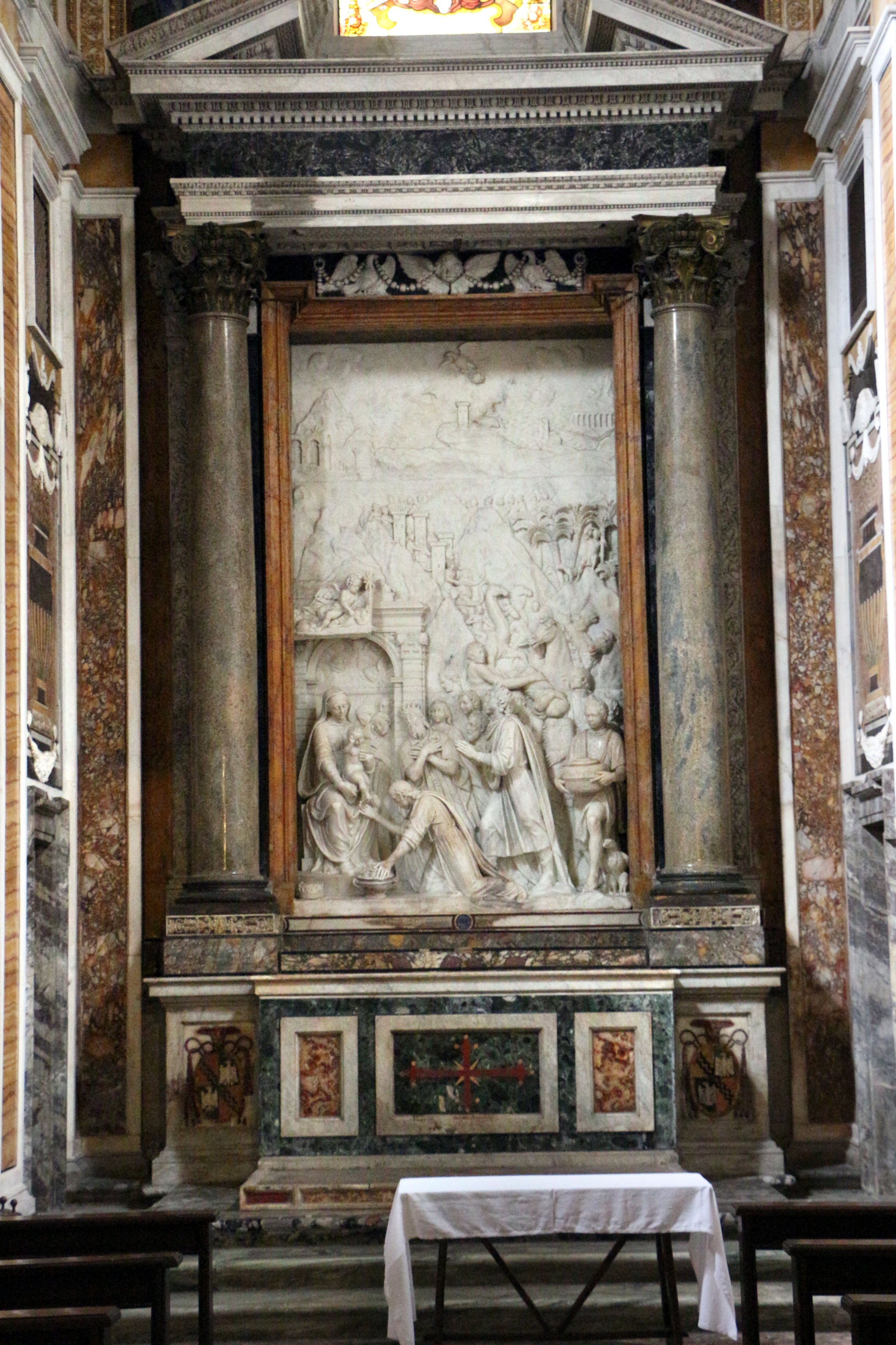 Santa Pudenziana (Rome)